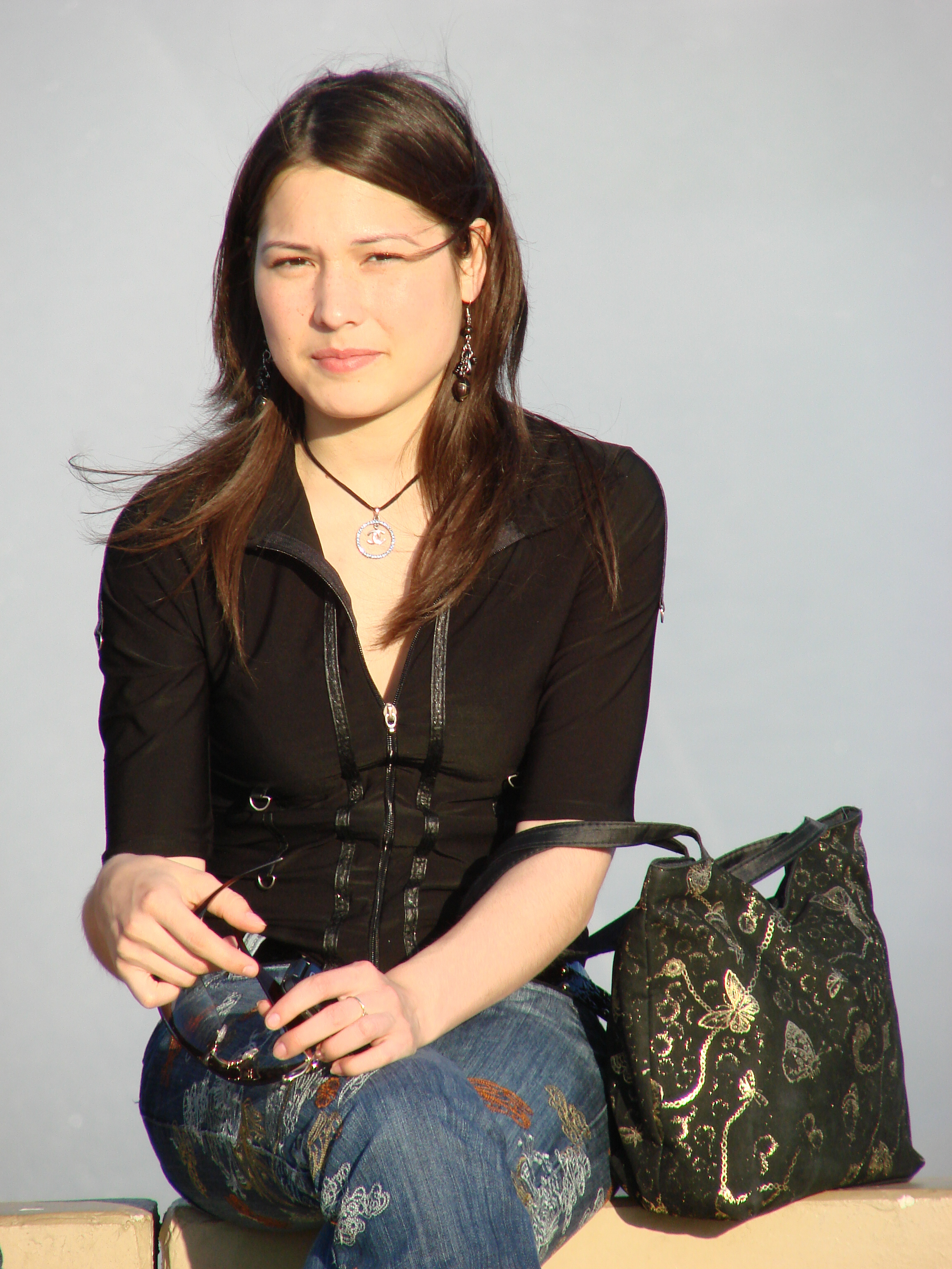 Young woman in late-afternoon sunshine along riverfront in Kazan, Russia. June 2008.